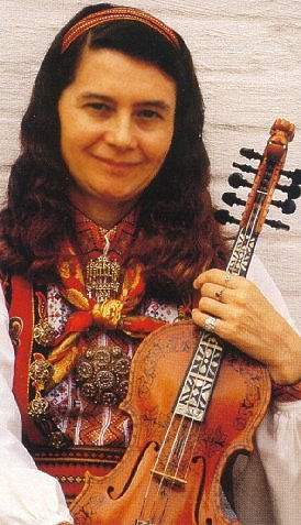 Loretta A. Kelley, American Hardanger fiddle player. Given by the subject to use in in Wikipedia.